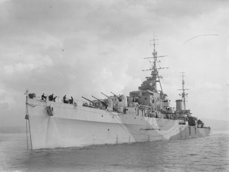 Photograph of British light cruiser HMS Royalist, at anchor at Greenock.